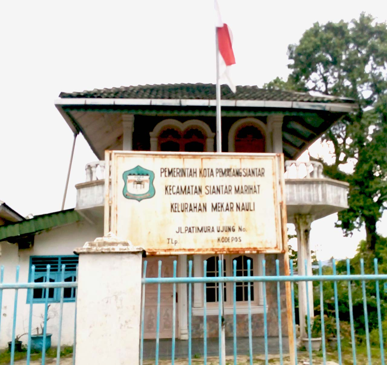 Office of Mekar Nauli, Kecamatan Siantar Marihat, Pematangsiantar